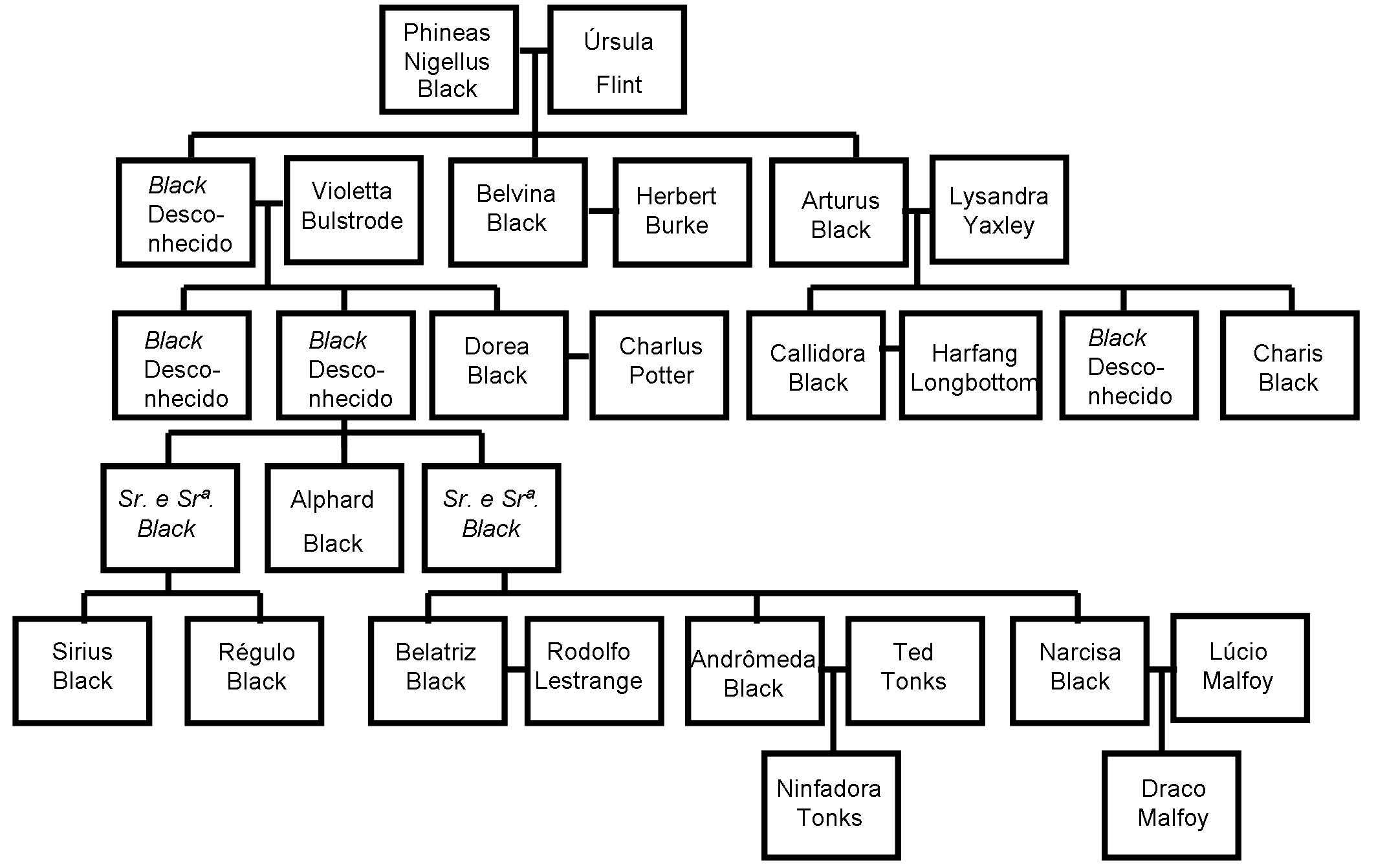 Harry Potter's "Family Chapman "genealogical tree in Brazilian Portuguese